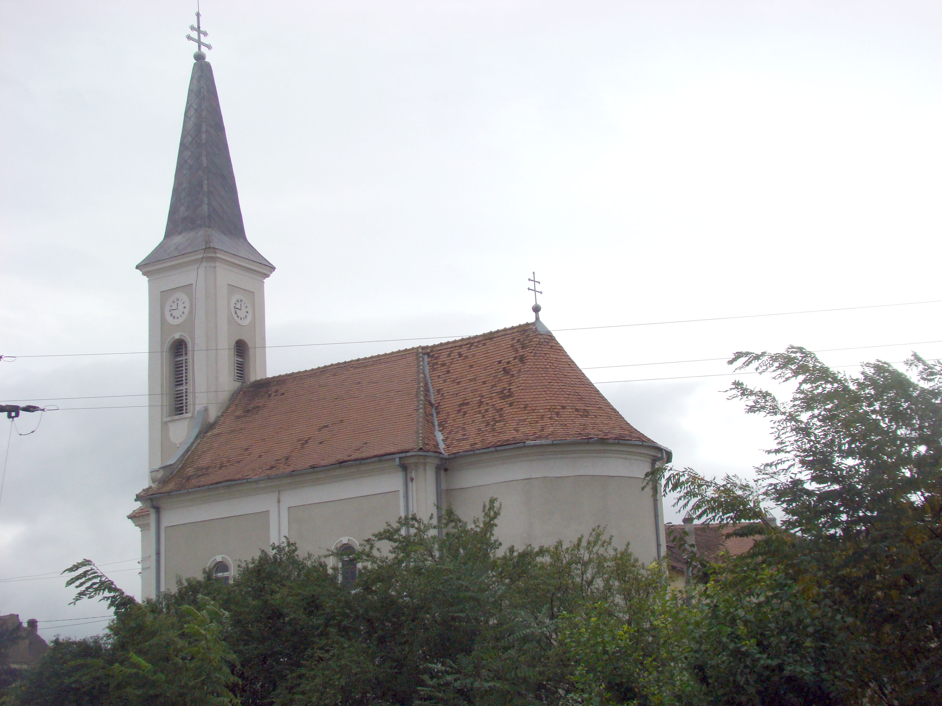 Romanian Greek-Catholic Church of the Annunciation, Miercurea Sibiului